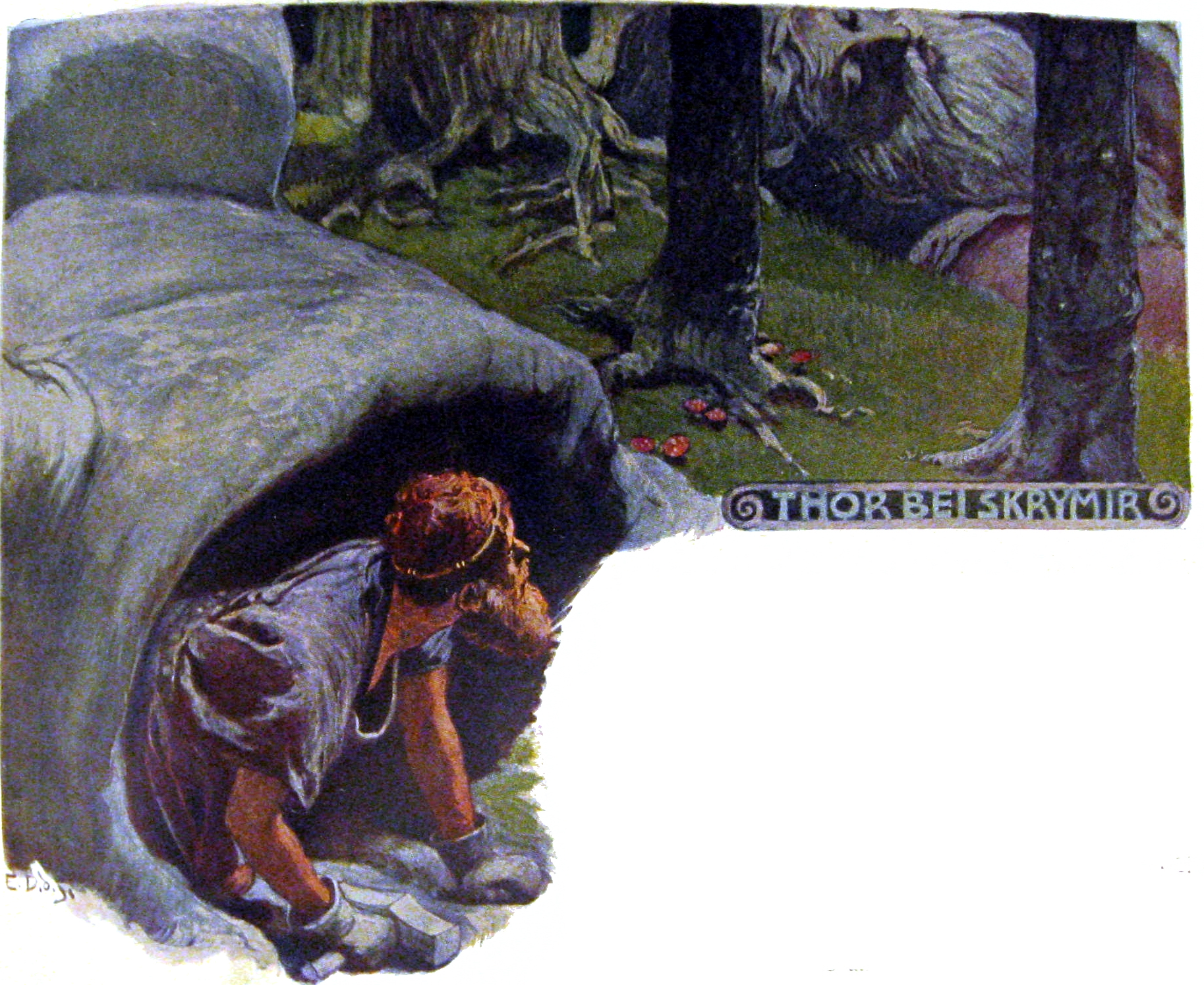 Thor bei Skrymir. Thor crawls out of Skrýmir's glove and sees Skrýmir.